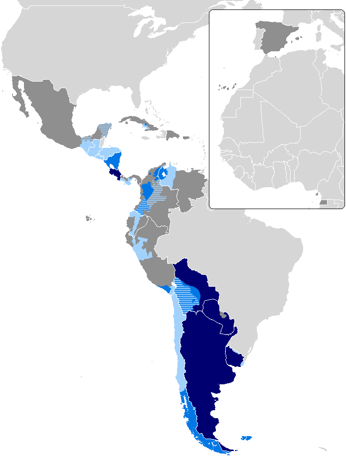 Voseo en América